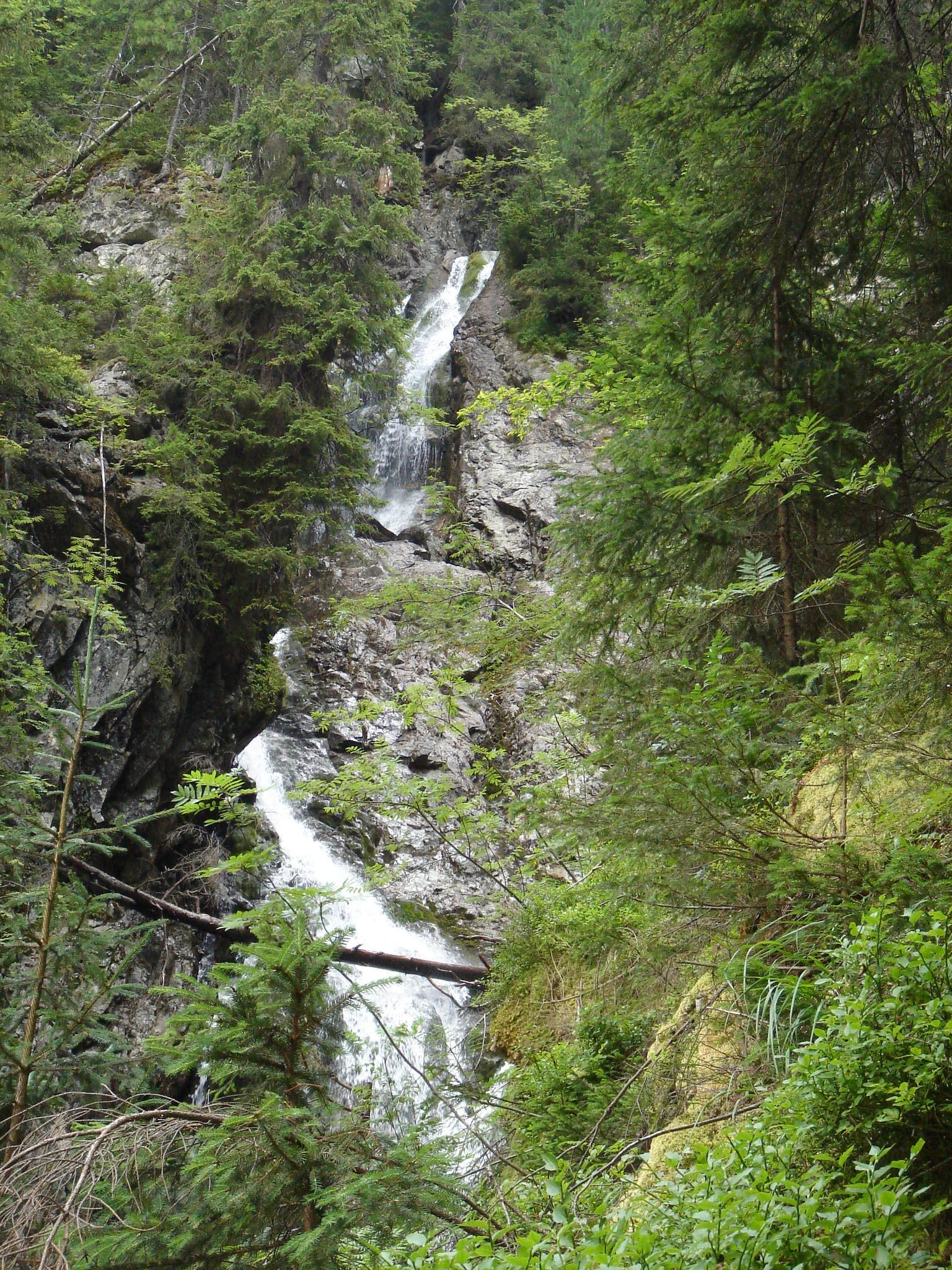 Kmeťov vodopád(waterfall), High Tatras, Slovakia